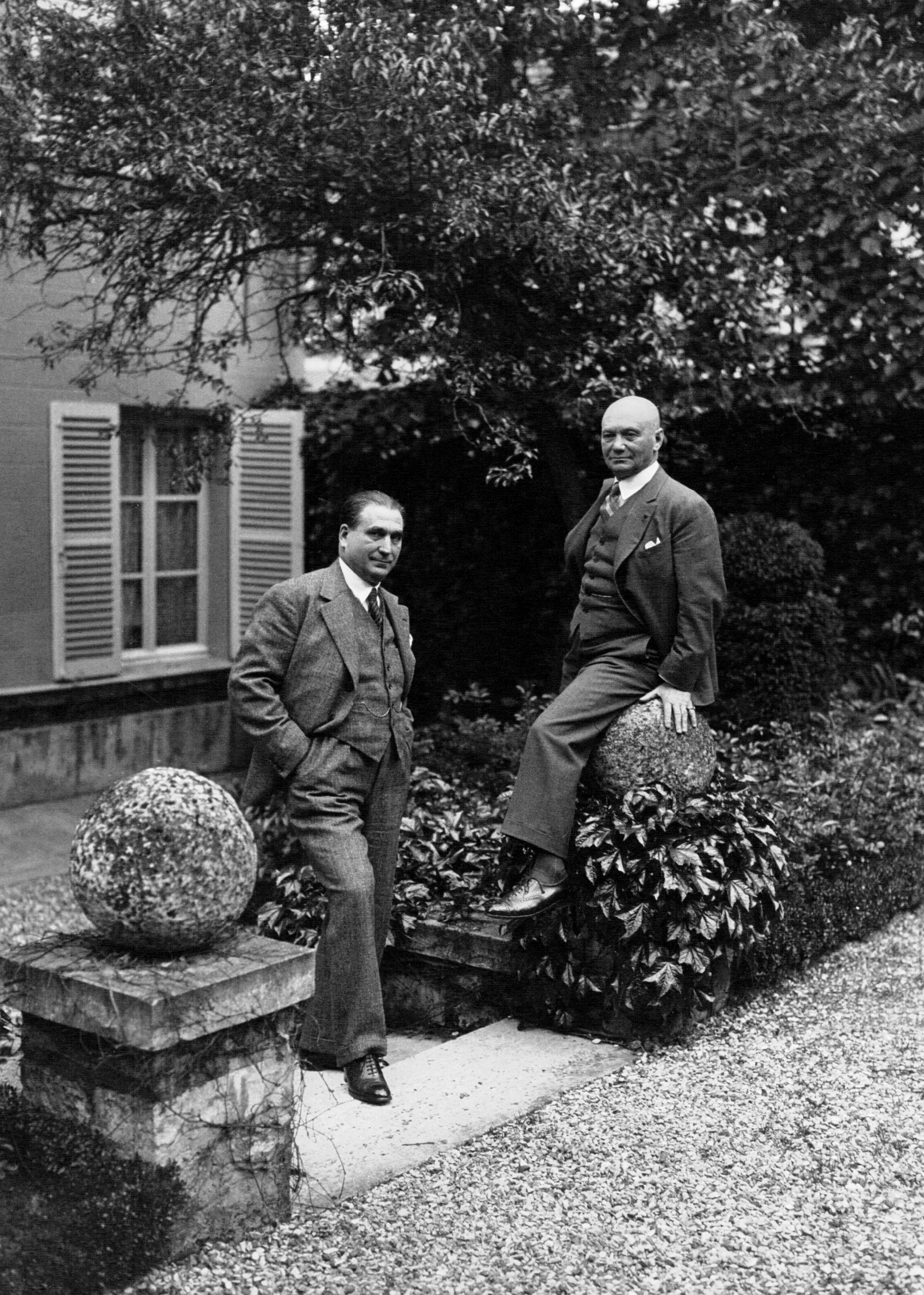 Jérôme and Jean Tharaud (from right to left), French writers of the first half of the 20th century, in their garden, in 1932. Cropped print